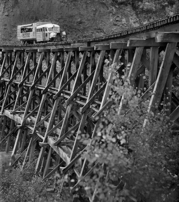 Photo of a Galloping Goose climbing a steep trestle on its route in 1951.